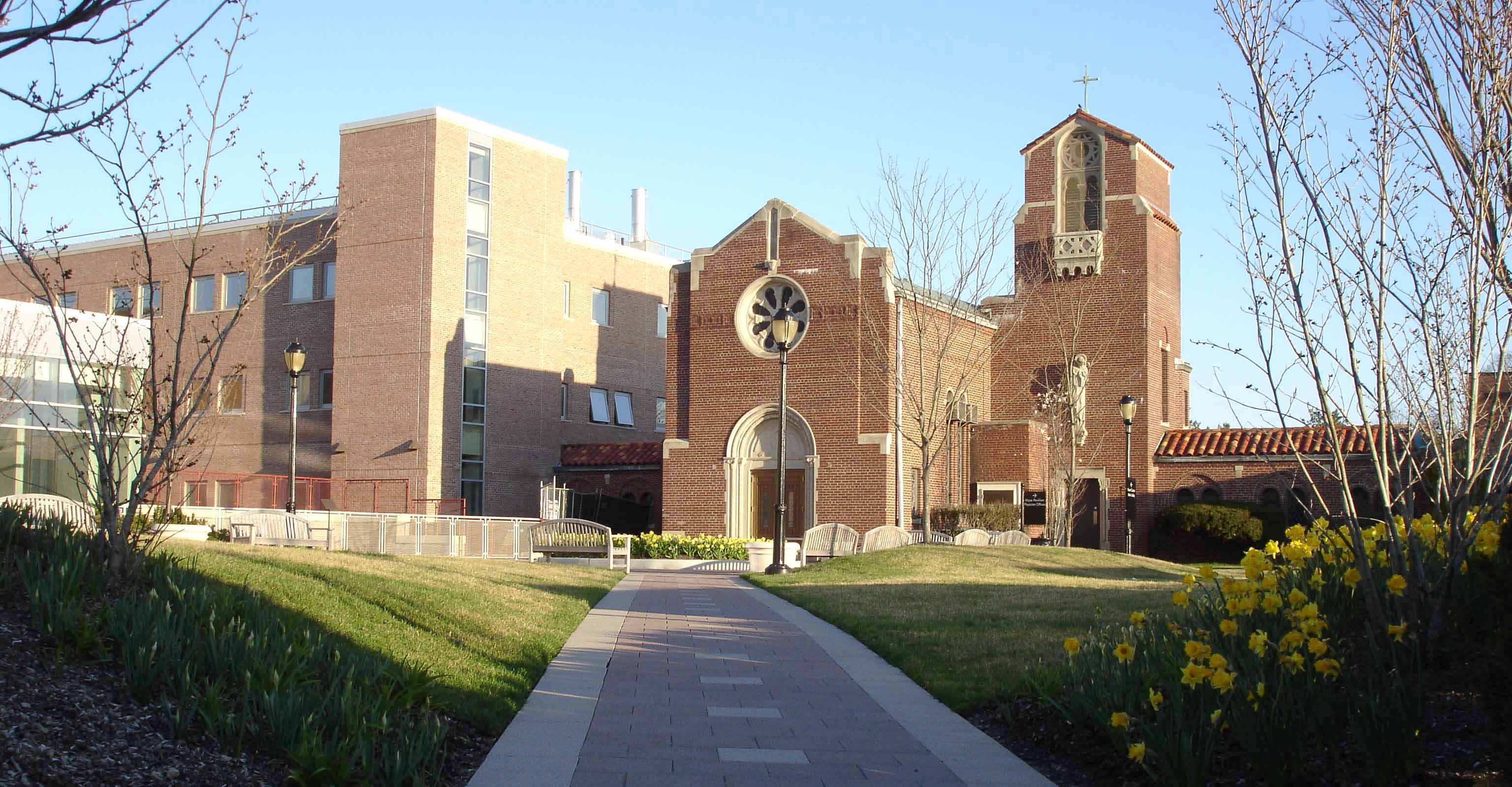 St. Francis Hospital (Flower Hill, New York) - The Heart Center and DeMatteis Pavilion